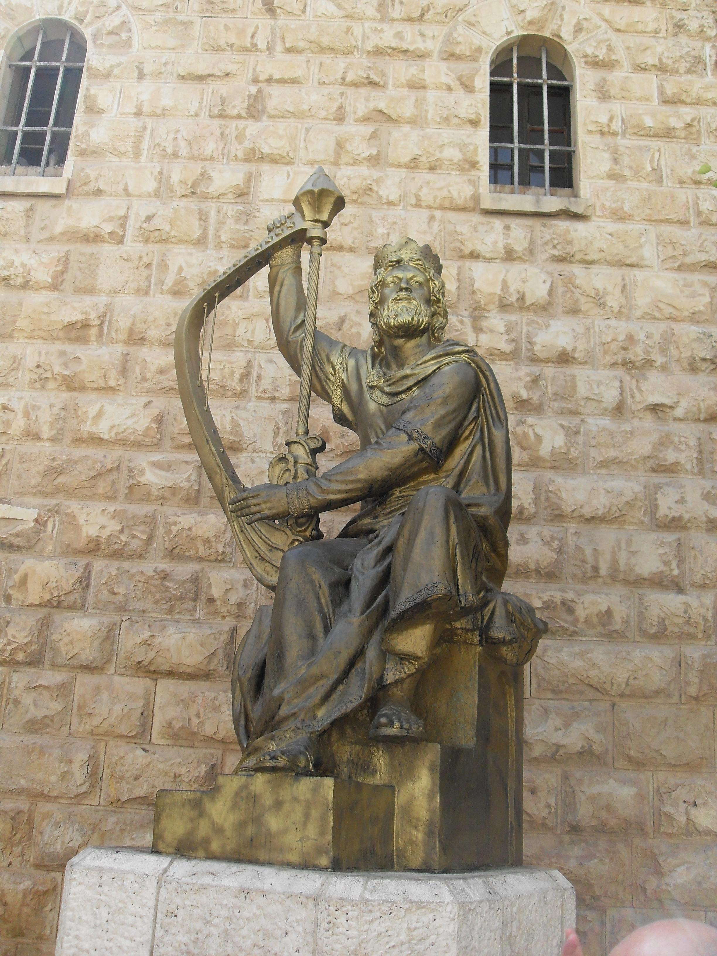 Jerusalem Mount Sion King David Statue - Haredim want King David statue moved